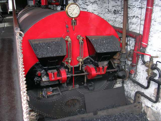 Queen Street Mill - Boiler House